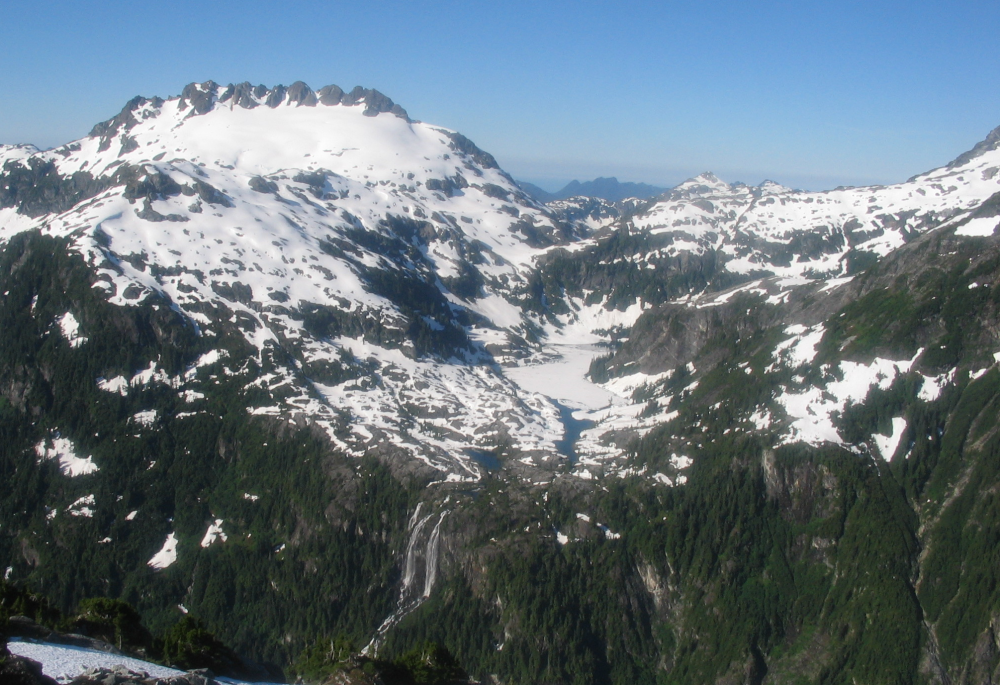 Della Falls, Della Lake, and Nine Peaks East aspect